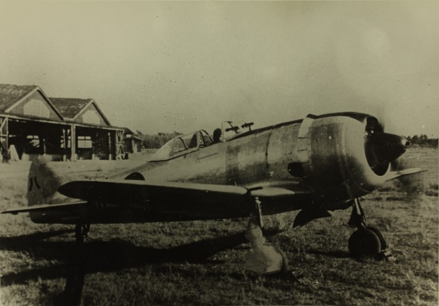 PictionID:6485618 - Catalog:01_00086192 - Title:Nakajima, Ki-44, Shoki 'Devil Queller' Tojo 'John' Army Type 2 Single seat Fighter' - Filename:01_00086192.TIF - Image from the Charles Daniels Photo Collection album "Seversky, Republic and P-47"----PLEASE TAG this image with any information you know about it, so that we can permanently store this data with the original image file in our Digital Asset Management System.----SOURCE INSTITUTION: San Diego Air and Space Museum Archive